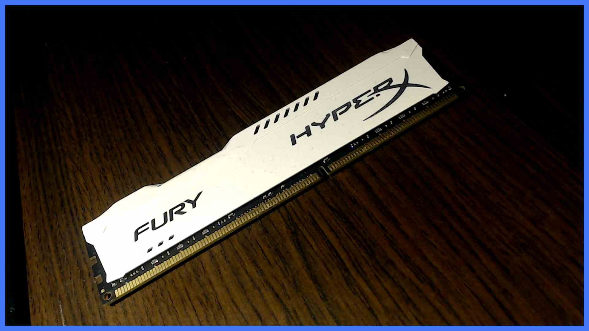 8GB DDR3 RAM stick in white protective cover